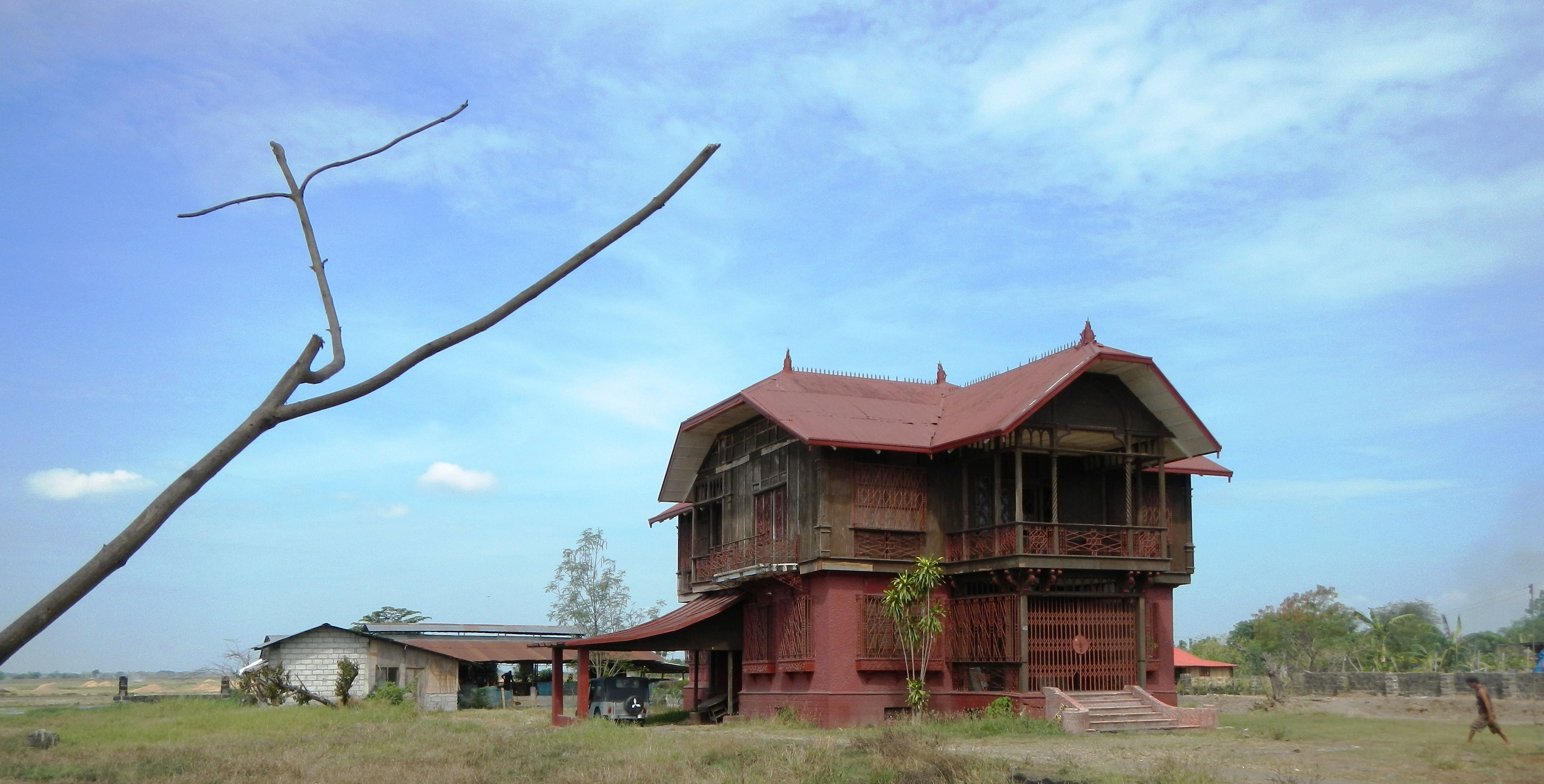 Don Ramon Ilusorio Mansion, Bahay na Pula (Haunted Red House in San Ildefonso, Bulacan) at Barangay Anyatam along the National Highway, with tamarind, camachile, duhat trees, uses as barracks by Japanese soldiers in WWII where 61 yourng Filipino comfort women were sex slaves, of mass rape, mostly from Bario Mapanique, Candaba, Pampanga; on November 23, 1944 Malaya Lola (Free Grandmothers).[1] Geki Group of the 14th District Army under Japanese Gen. Tomoyuki Yamashita, attacked the village of Mapanique, a suspected bailiwick of the Filipino rebel army, the Hukbo ng Bayan Laban sa Hapon. Ramon Ilusorio is Chairman Emeritus of the investment house Multinational Investment Bancorporation).